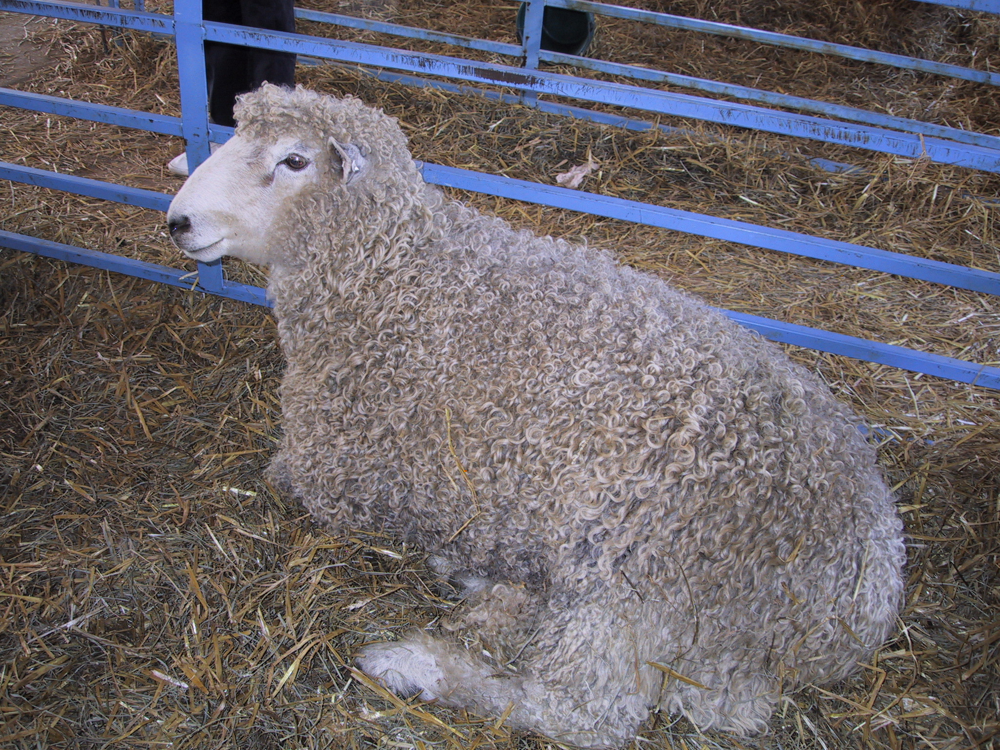 Maryland Sheep and Wool Festival in 2005 Source Richard Arthur Norton (1958- ) archive